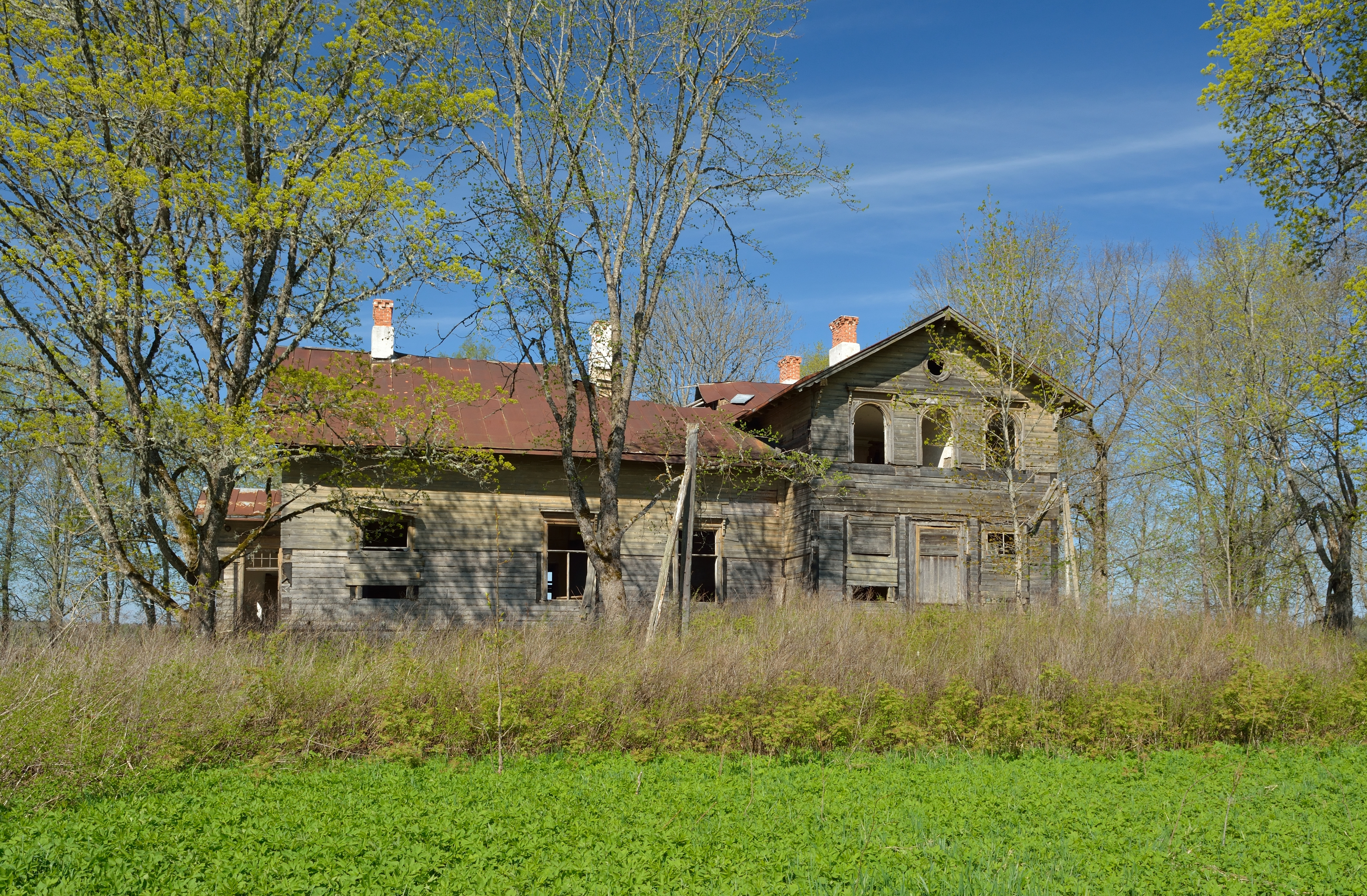 Ruins of Nõmmküla manor. Probably built in 1850-1860.